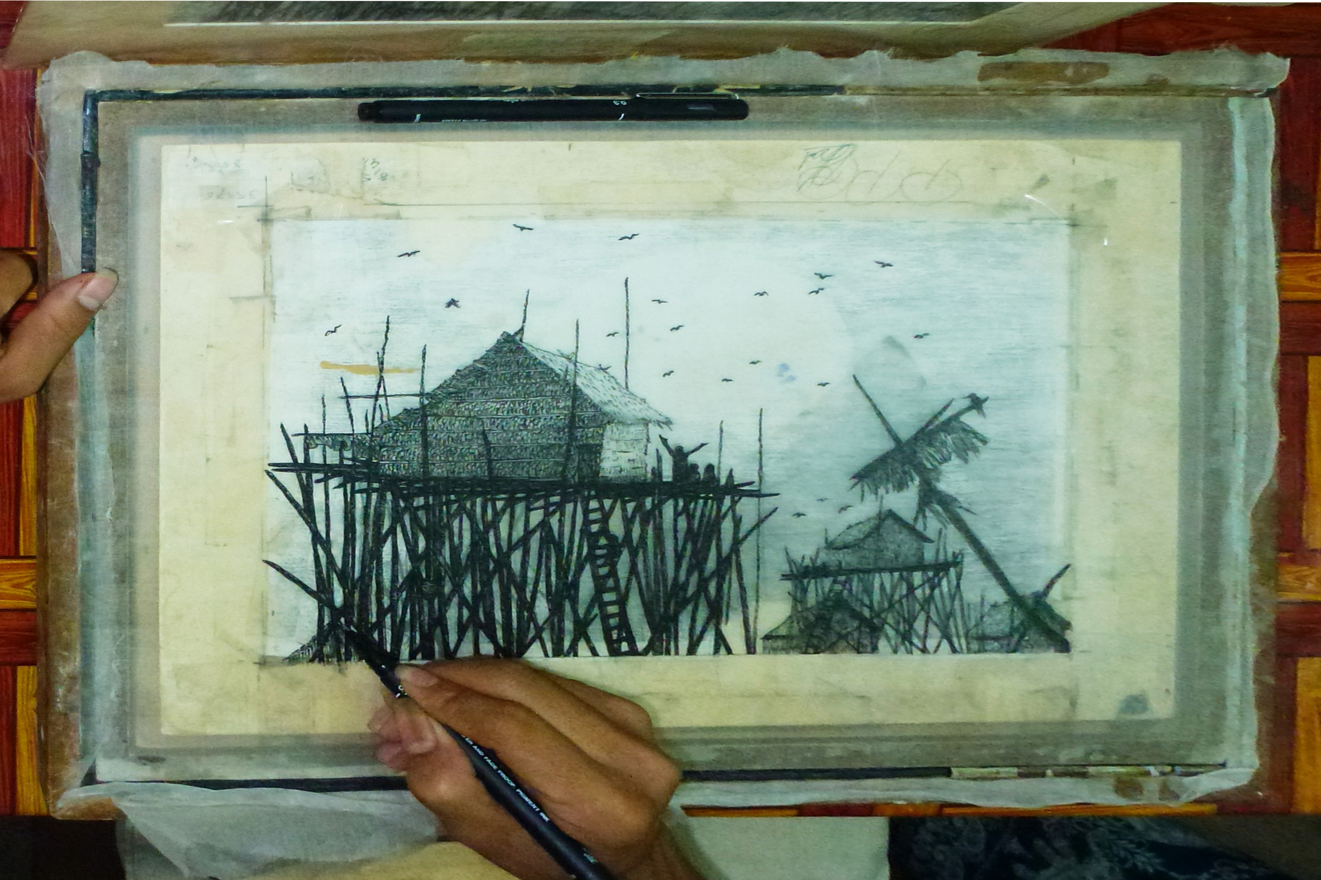 Drawing on silk "Artisans d'Angkor" Stung Thmey Street